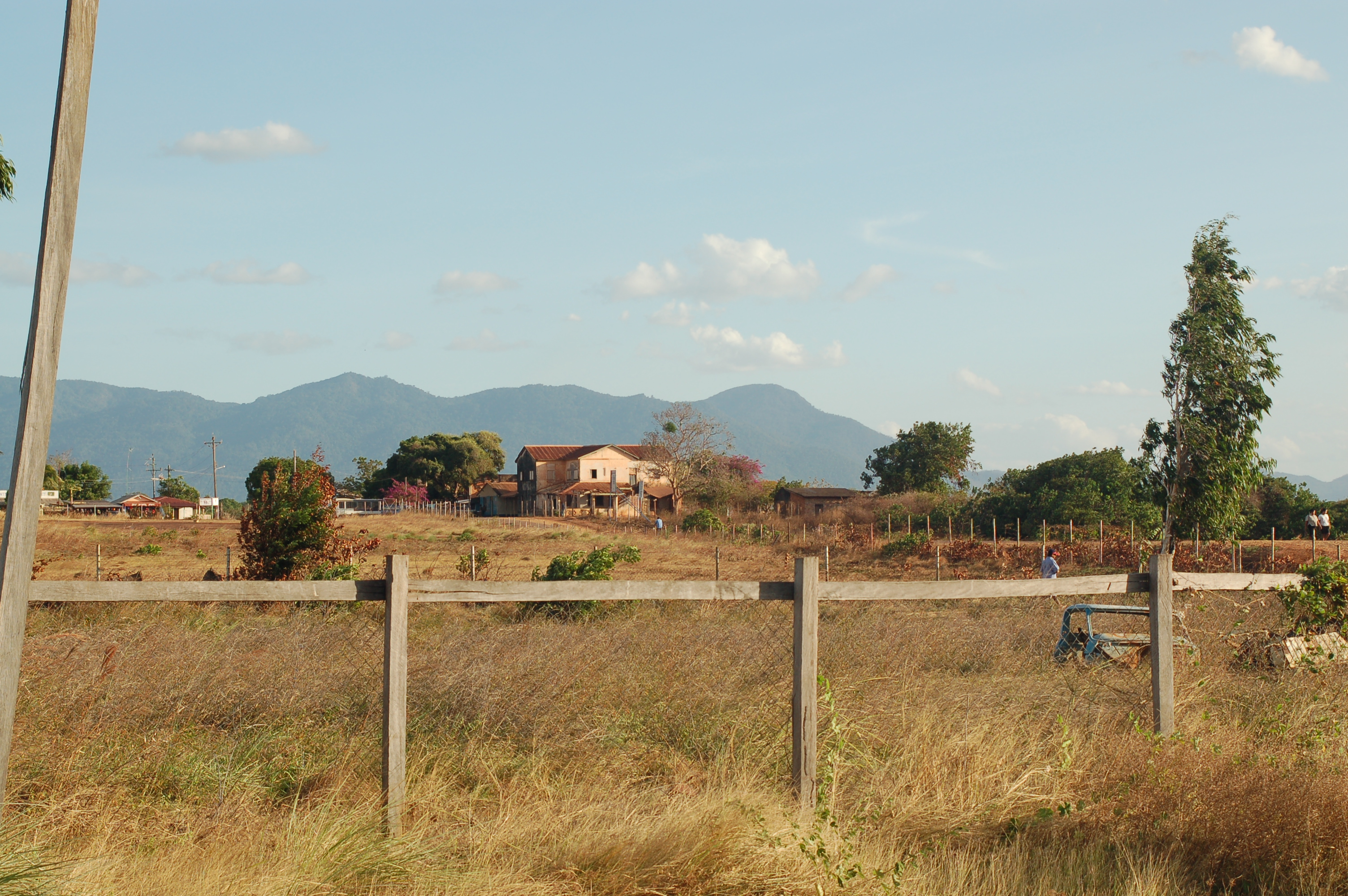 photograph of Lethem, Guyana, near airport, looking east